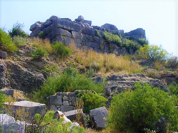 Xanthus, tomb of the Nereids, podium